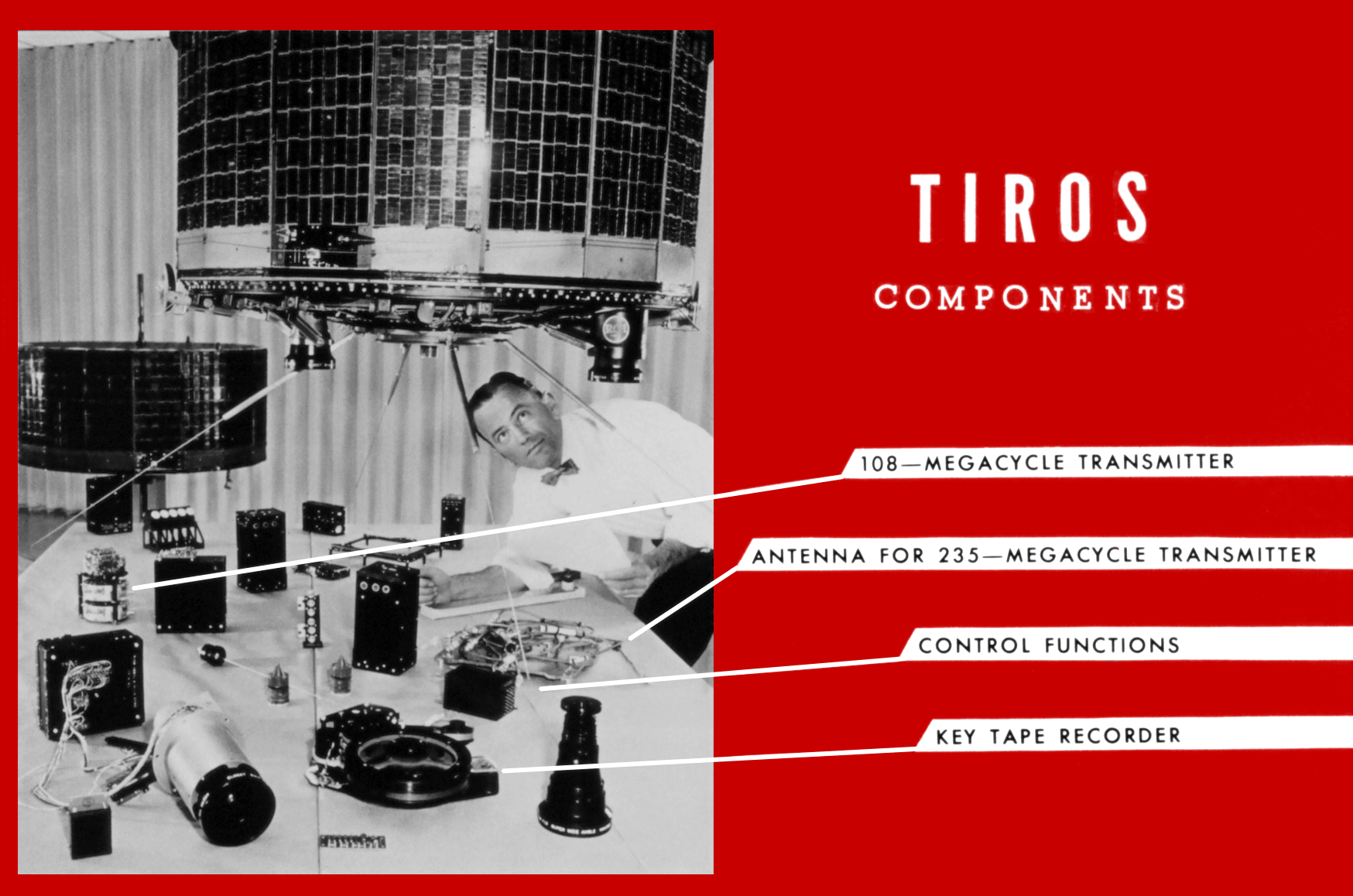 Components of the Television Infrared Observation Satellite (TIROS). TIROS spacecraft were the beginning of a long series of polar-orbiting meteorological satellites. TIROS was followed by the TOS (TIROS Operational System) series, and then the ITOS (Improved TIROS Operational System) series, and later the NOAA series. TIROS spacecraft were developed by Goddard Space Flight Center (GSFC) and managed by ESSA (Environmental Science Services Administration). The objective was to establish a global weather satellite system. As described by TIROS Quicklook, from the JPL Mission and Spacecraft Library.